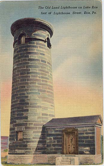 Pre-1914 postcard of the Erie Land lighthouse Smithsonian metadata: Erie Land State: PA Year established: 1818 Latitude: 42 deg 8 min 38 sec N Longitude: 80 deg 3 min 49 sec W Height above sea level: 49 feet Original construction: 20-foot square stone tower Rebuilds: 1858: round 56-foot brick tower 1867: current conical stone tower built 1897: The tower was raised 17 feet Status: inactive from 1881 - 1885; deactivated in 1899; attraction in Land Lighthouse Park undergoing restoration in 2004 Notes: Originally known as the "Presque Isle Light Station", the name was changed to "Erie Light Station" in 1870. Holland, Jr. F.Ross, America's Lighthouses Their Illustrated History Since 1716 , (Brattleboro, VT: The Stephen Greene Press, 1972) p. 176 Berger, Todd R., Lighthouses of the Great Lakes, (Stillwater, MN: Voyageur Press, 2002), p. 144